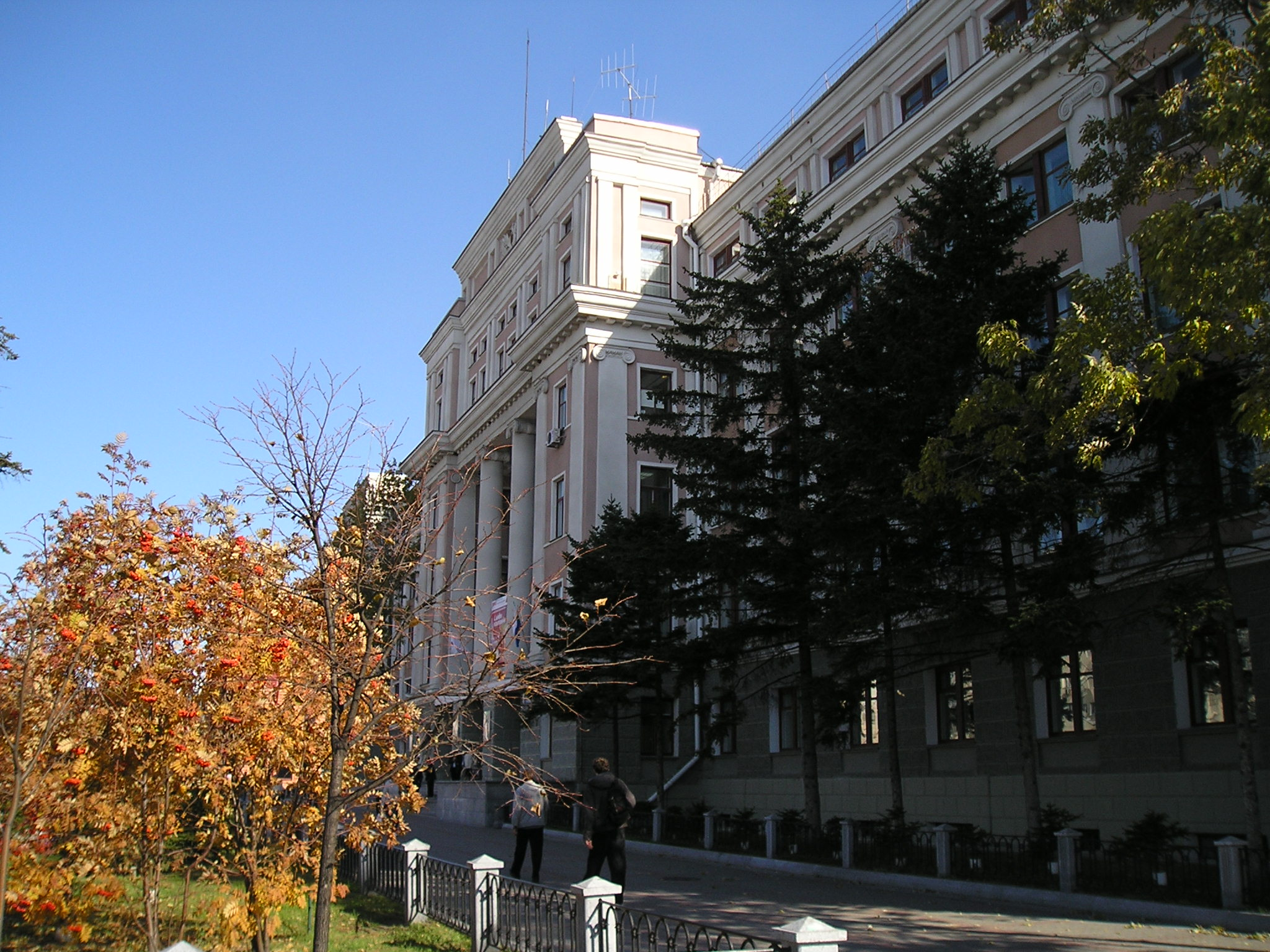 Building Far Eastern Railways - branch of Joint Stock Company "Russian Railways" (JSCo "RZD")